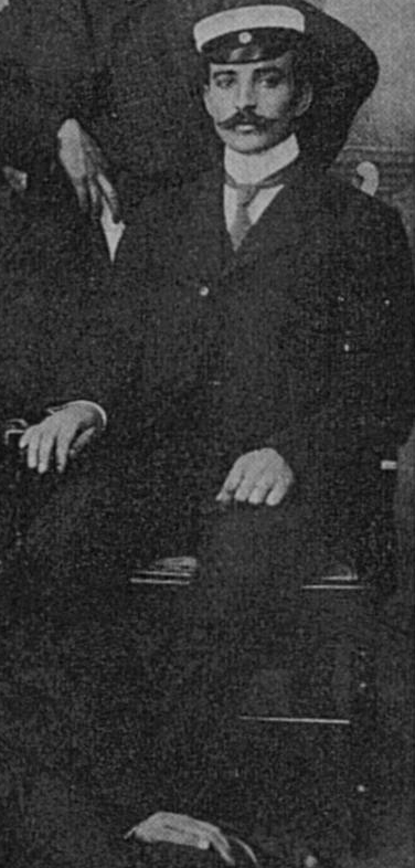 Iivari Kyykoski (1881–1959), a Finnish Olympic gymnast and bronze medalist